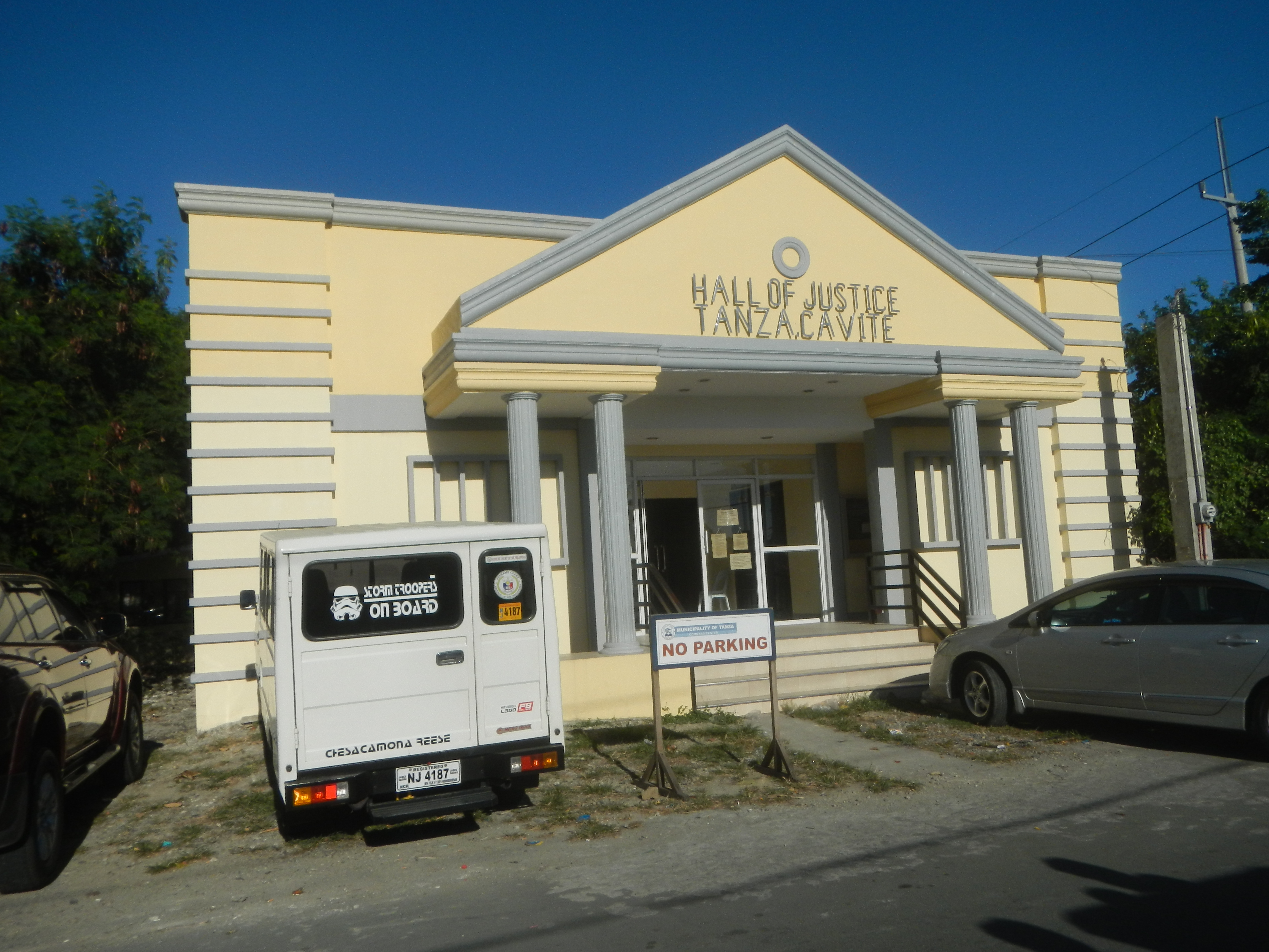 Antero Soriano Highway (Tanza, Cavite) Tanza town hall compound Tanza Public Market, Cavite Antero Soriano Highway (N402 highway Philippines - Tanza-Naic, Cavite) N402 highway (Philippines) Antero Soriano Highway Antero Soriano Highway (Tanza, Cavite) Barangays Daang Amaya 1, 2 & 3, Tanza, Cavite 14°23'21"N 120°51'20"E Poblacion 1, 2, 3 & 4, Tanza, Cavite 14°24'1"N 120°51'27"E Tanza, Cavite along Tanza–Trece Martires Road corner Governor's Drive Governor's Drive (City of Trece Martires, Cavite) Philippine highway network (Note: Judge Florentino Floro, the owner, to repeat, Donor Florentino Floro of all these photos hereby donate gratuitously, freely and unconditionally all these photos to and for Wikimedia Commons, exclusively, for public use of the public domain, and again without any condition whatsoever).